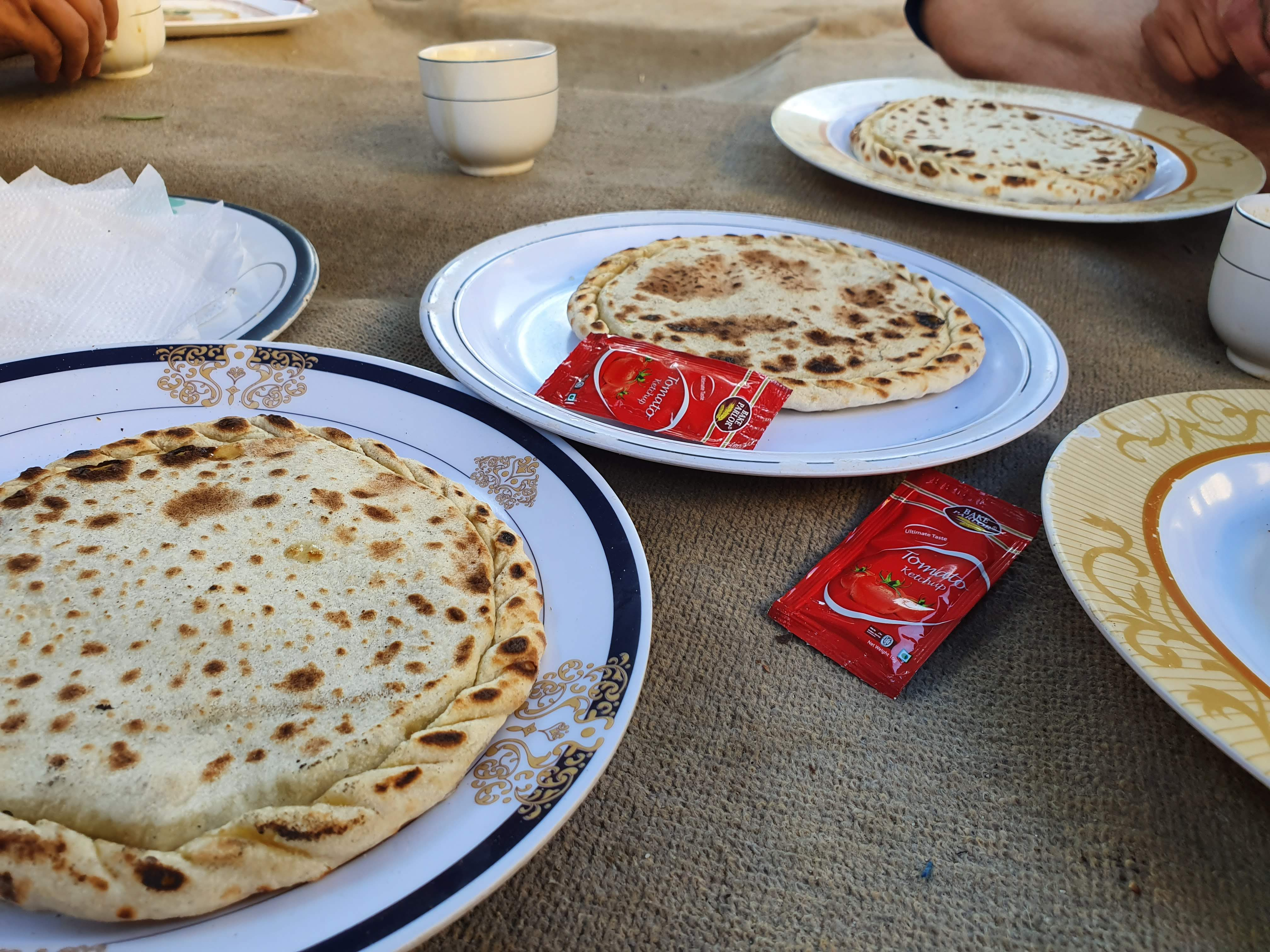 One of the popular dishes in the region (Hunza Valley, Gilgit-Baltistan) is Chapchor. It is made of beef rolled in chapati.